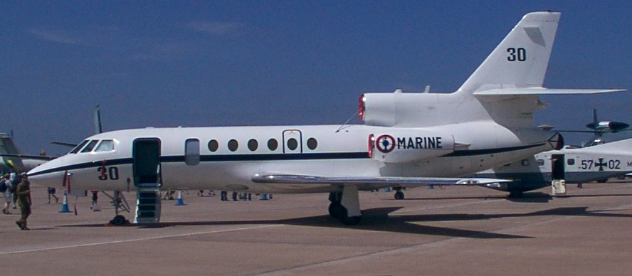 Dassault Falcon 50 serial number 30 of the French Navy on display at the Royal International Air Tattoo 2005 at RAF Fairford, England